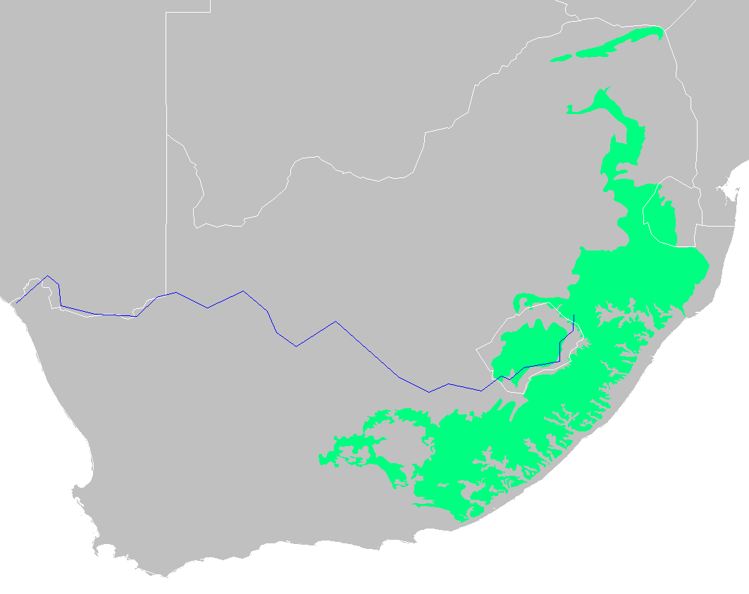 The Drakensberg montane grasslands, woodlands and forests ecoregion